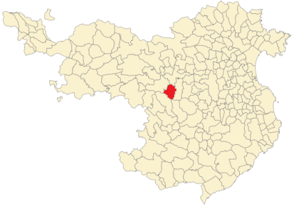 Mieras